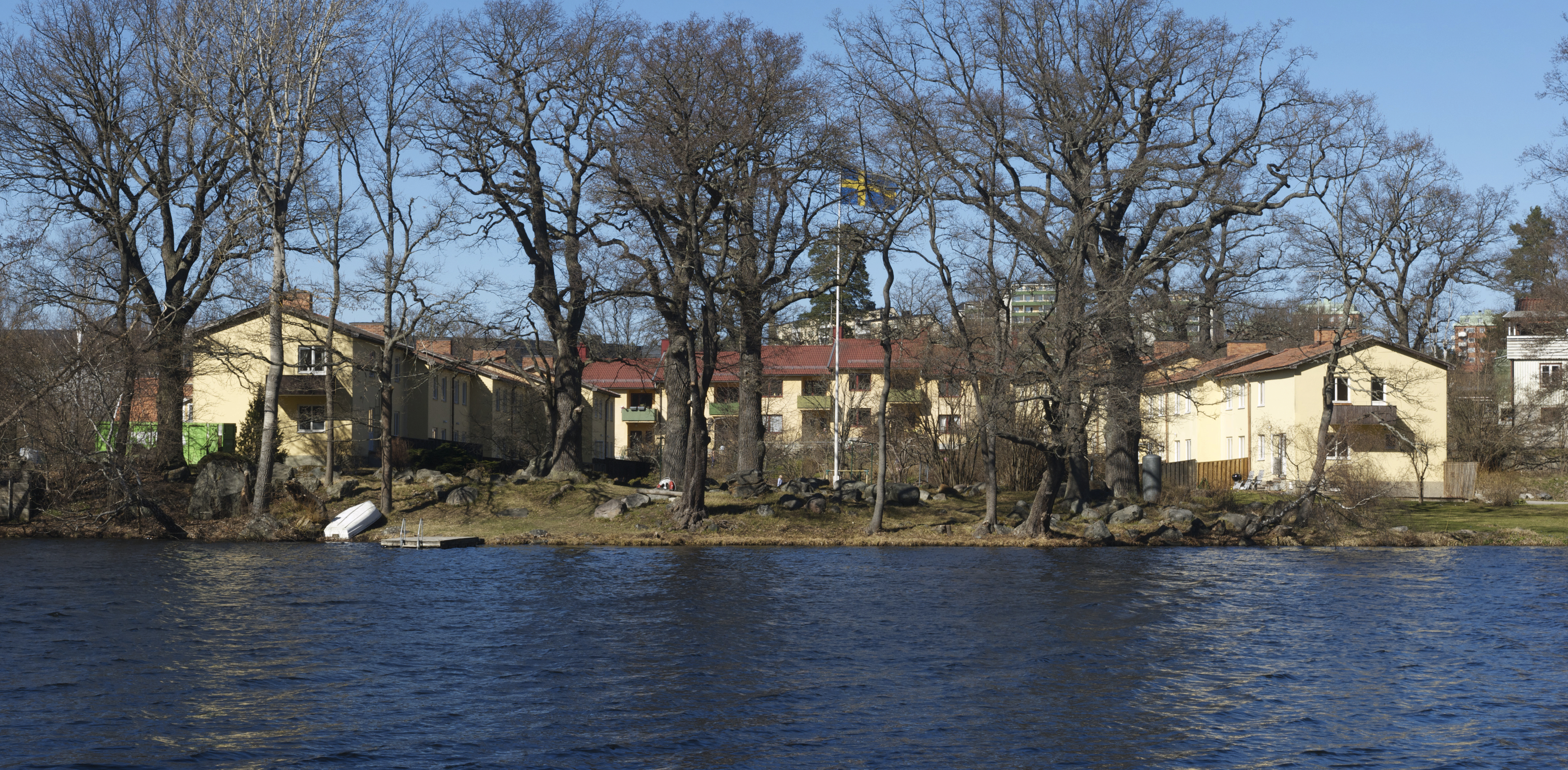 Terrace house built 1943 at Gillevägen (Gille road), Nacka. Architect Backström & Reinius Arkitekter AB. NOTE: This image is a panorama consisting of multiple frames that were merged or stitched in software. As a result, this image necessarily underwent some form of digital manipulation. These manipulations may include blending, blurring, cloning, and colour and perspective adjustments. As a result of these adjustments, the image content may be slightly different from reality at the points where multiple images were combined. This manipulation is often required due to lens, perspective, and parallax distortions.